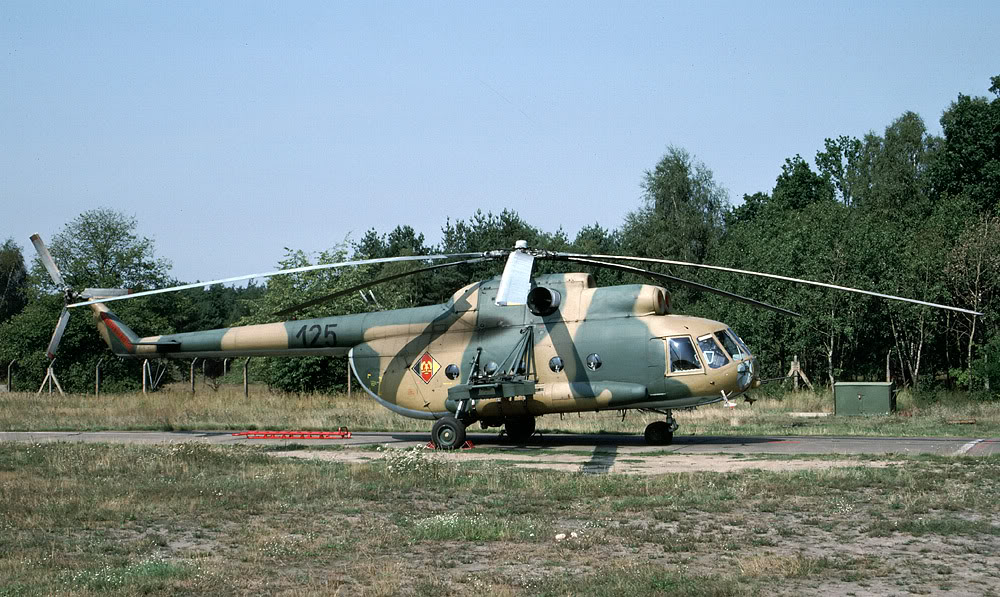 Mi-8T at Cottbus (East Germany) in 1990